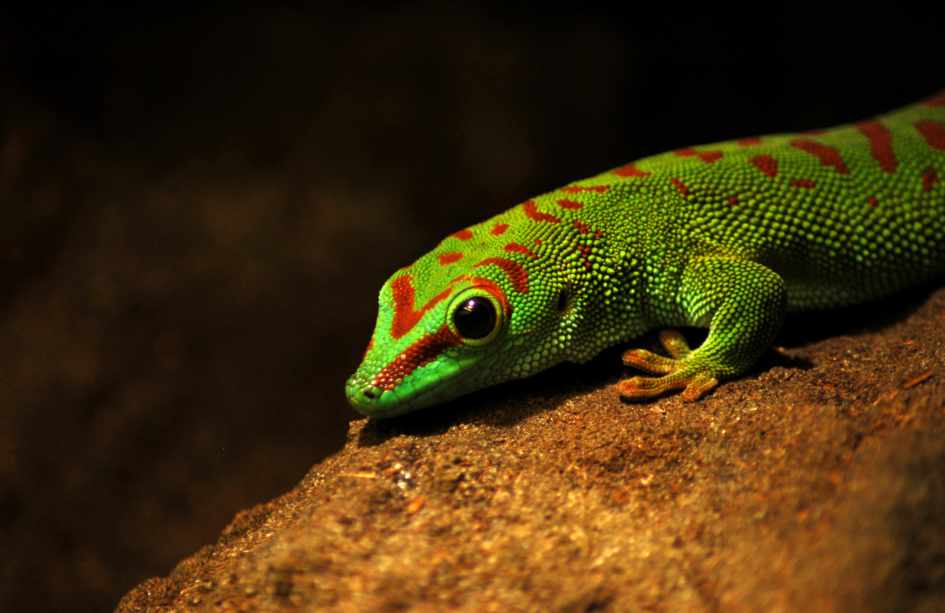 Green is my color